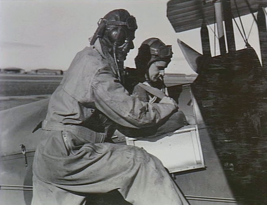 Benalla, Vic. On the airfield at No. 11 Elementary Flying Training School RAAF Benalla showing a trainee pilot being briefed by his instructor before takeoff on his first solo flight.